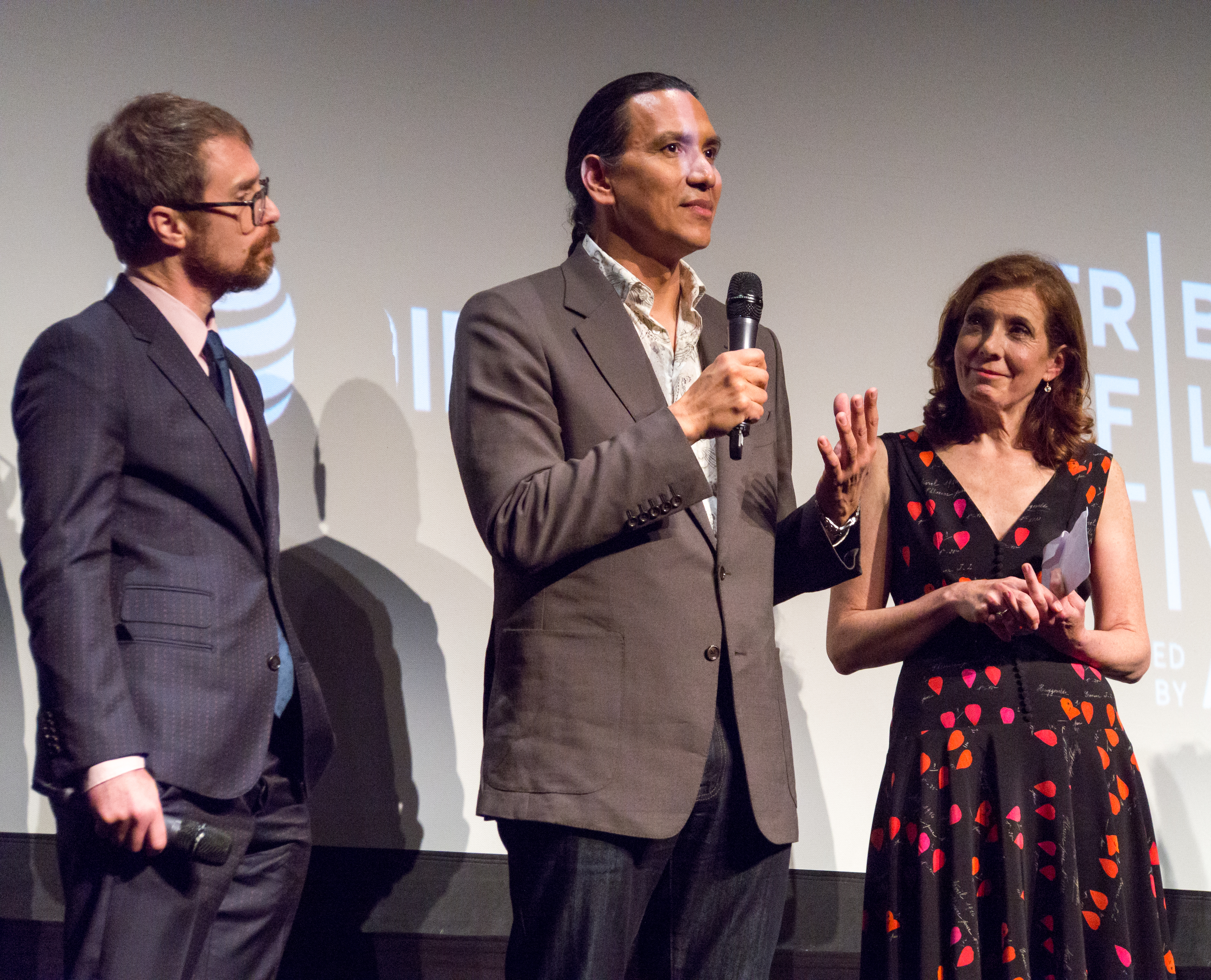 Sam Rockwell, Michael Greyeyes, and Susanna White during a discussion following the U.S. premiere of Woman Walks Ahead at the 2018 Tribeca Film Festival.